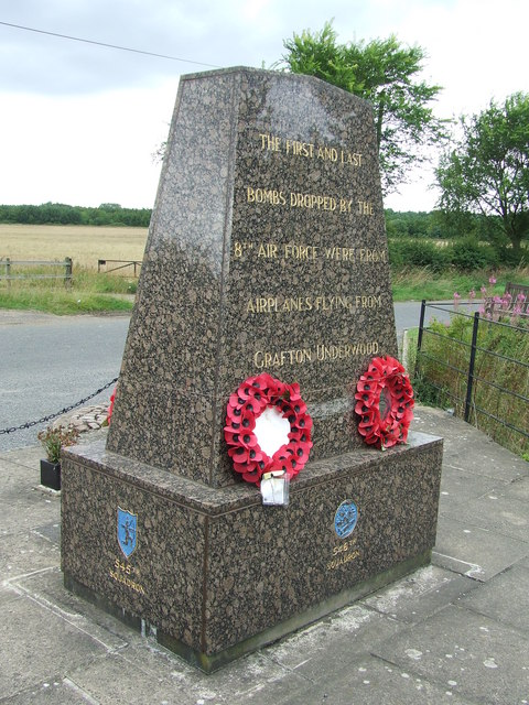 Memorial To U.S.A.A.F. Grafton Underwood. Memorial to the former airfield U.S.A.A.F. Grafton Underwood, Northamptonshire for info on the airfield see RAF_Grafton_Underwood other views see 1429736 and 1451656